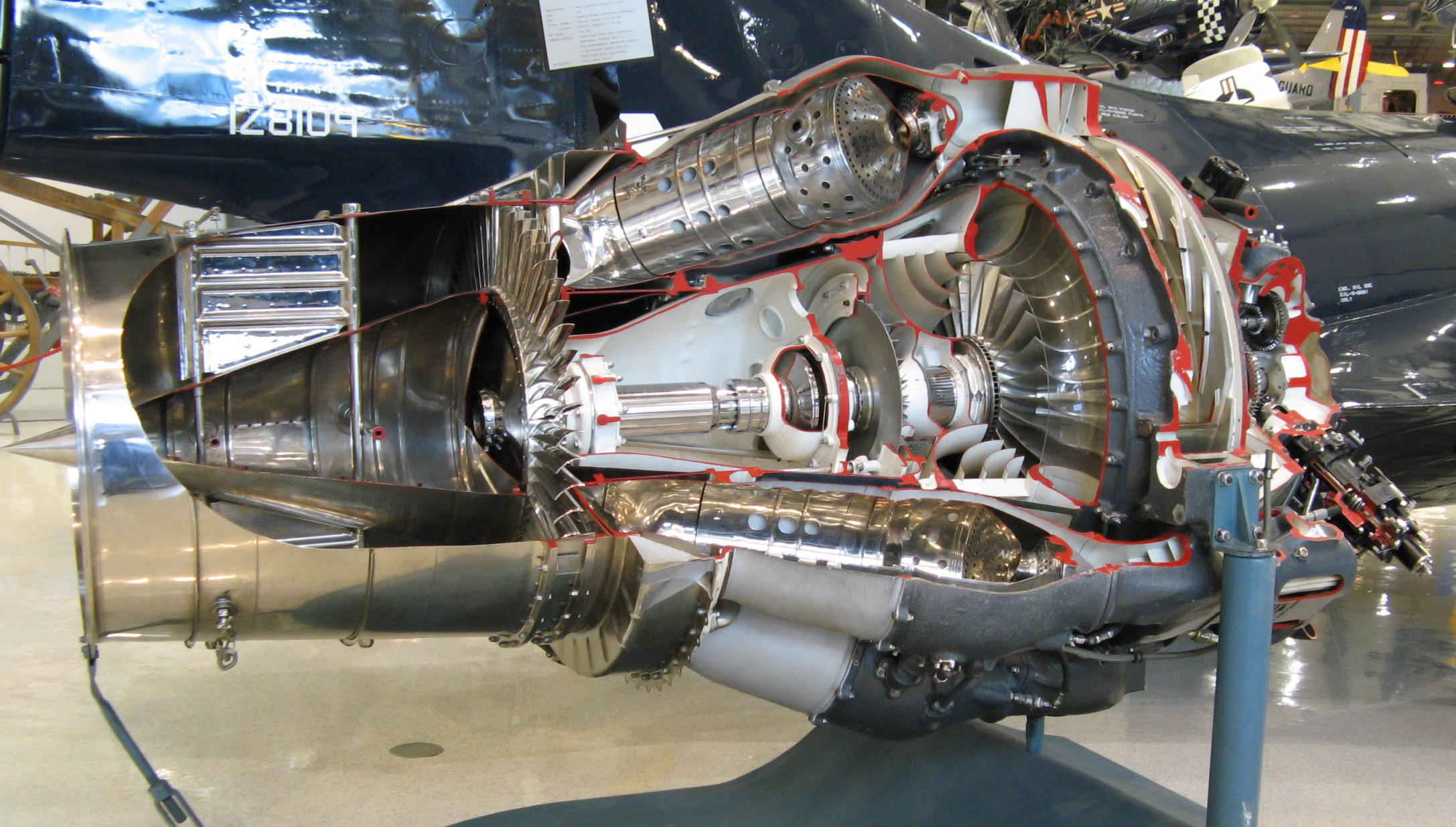 Pratt & Whitney J48 turbojet, Naval Aviation Museum, Pensacola, Florida